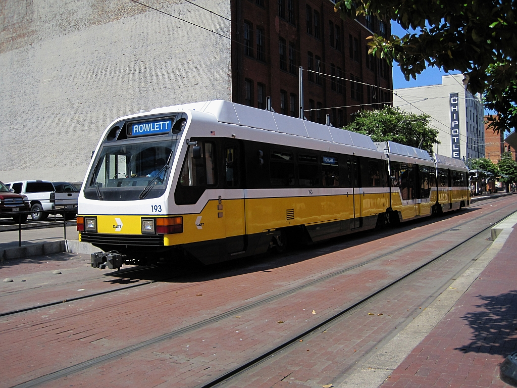 Kinki Sharyo light rail vehicles in Dallas, Texas.